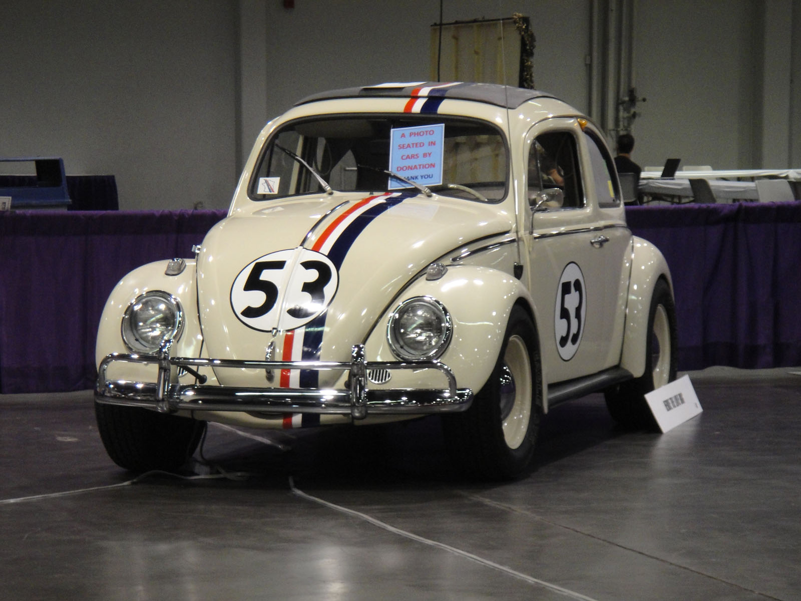 photo 2011 taken by Doug Kline If you're interested in higher resolution versions of my images, contact me via my profile page.